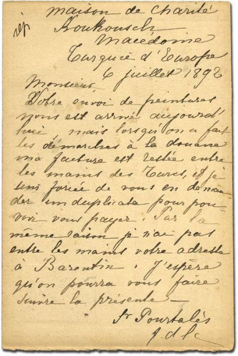 Postcard from the mission of the Catholic society Maisons des Filles de la Charité in Koukouch from 6 July 1892